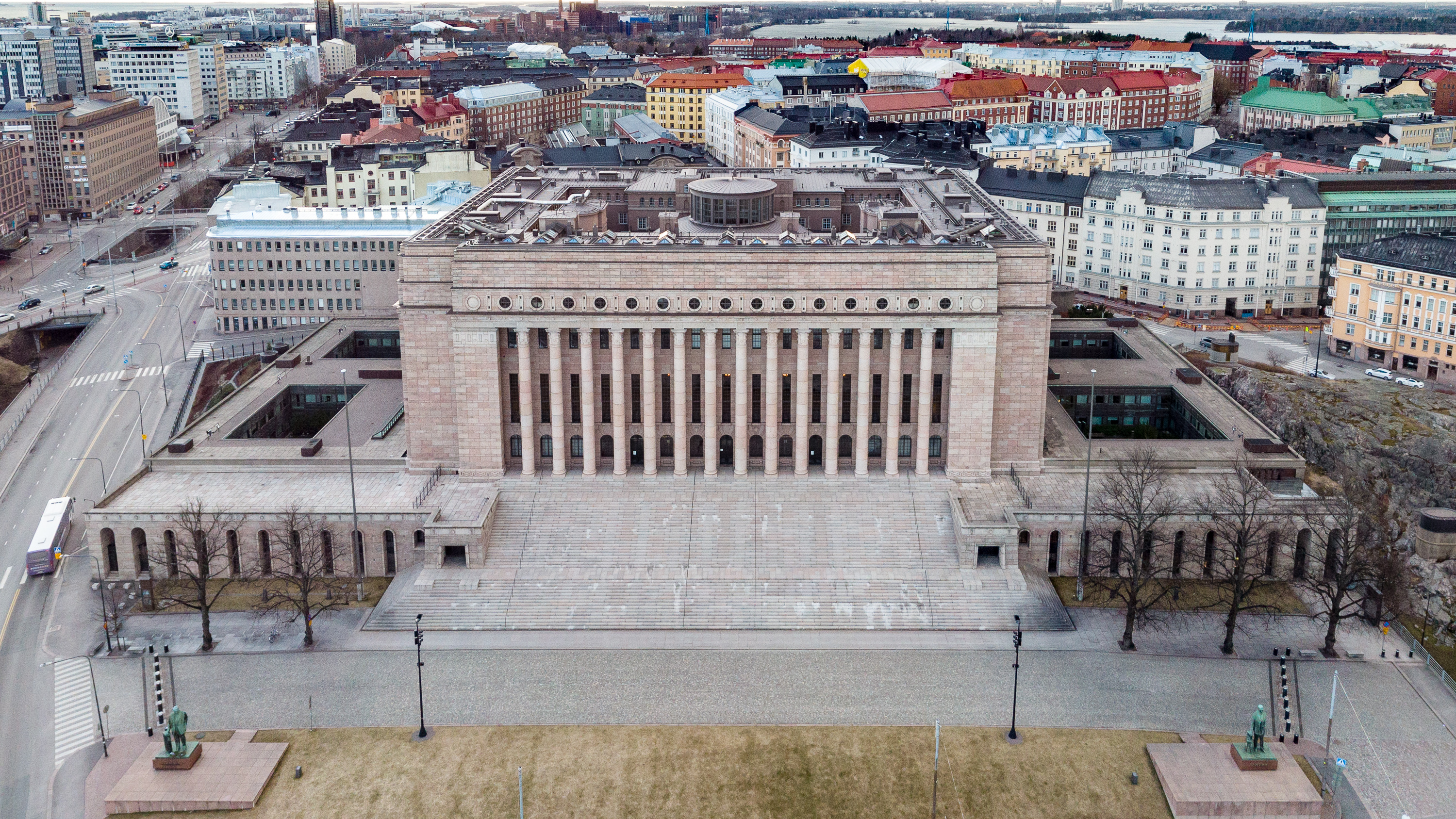 Aerial photograph of the Parliament House in Helsinki, Finland.